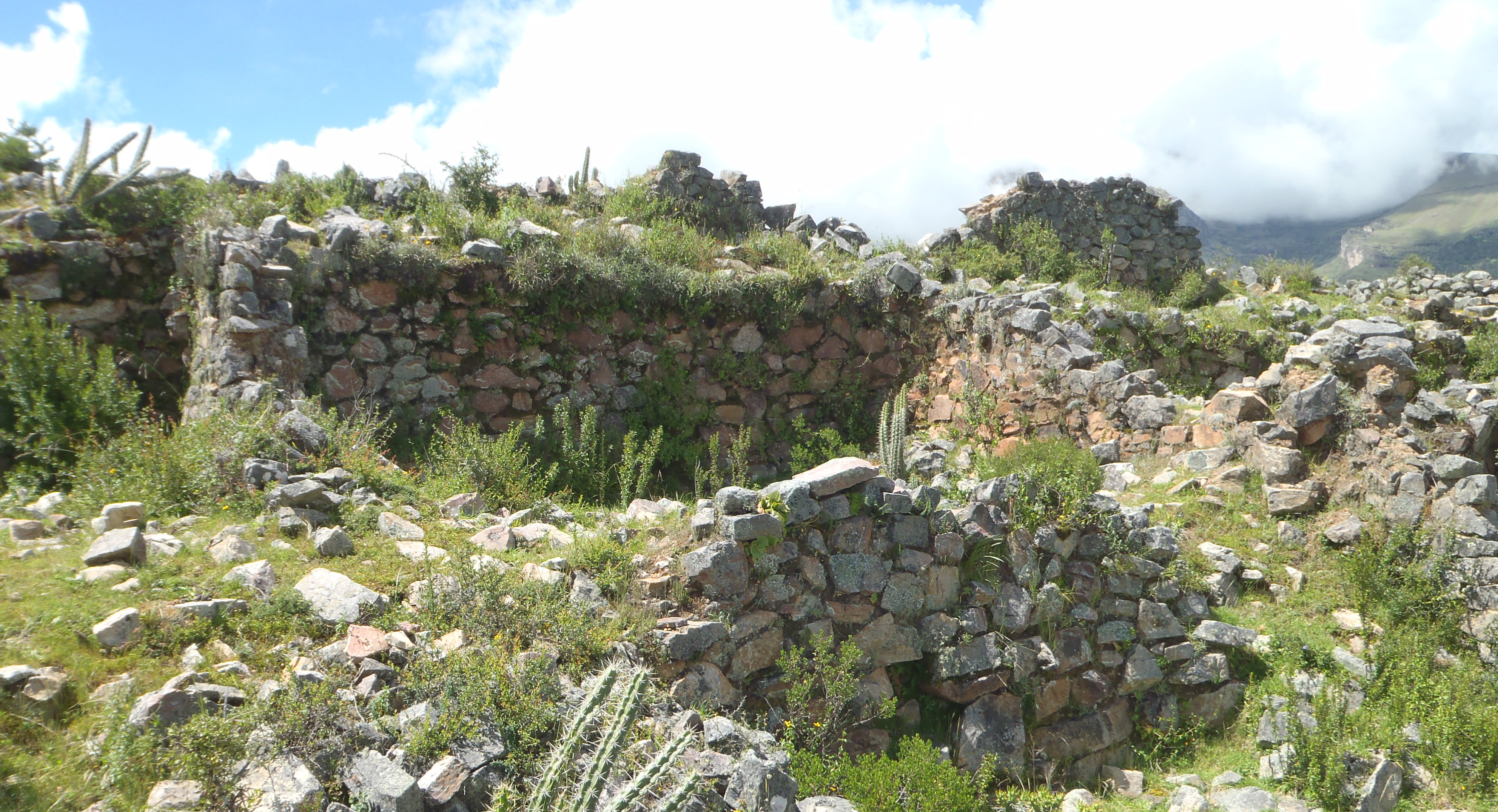 Yanaca is a pre-inca ruins group situated in Peru, Apurimac region, Yanaca district. Tunay Kassa is one of these ancient village, situated at 4 km from Yanaca village. This picture represents Tunay’houses.